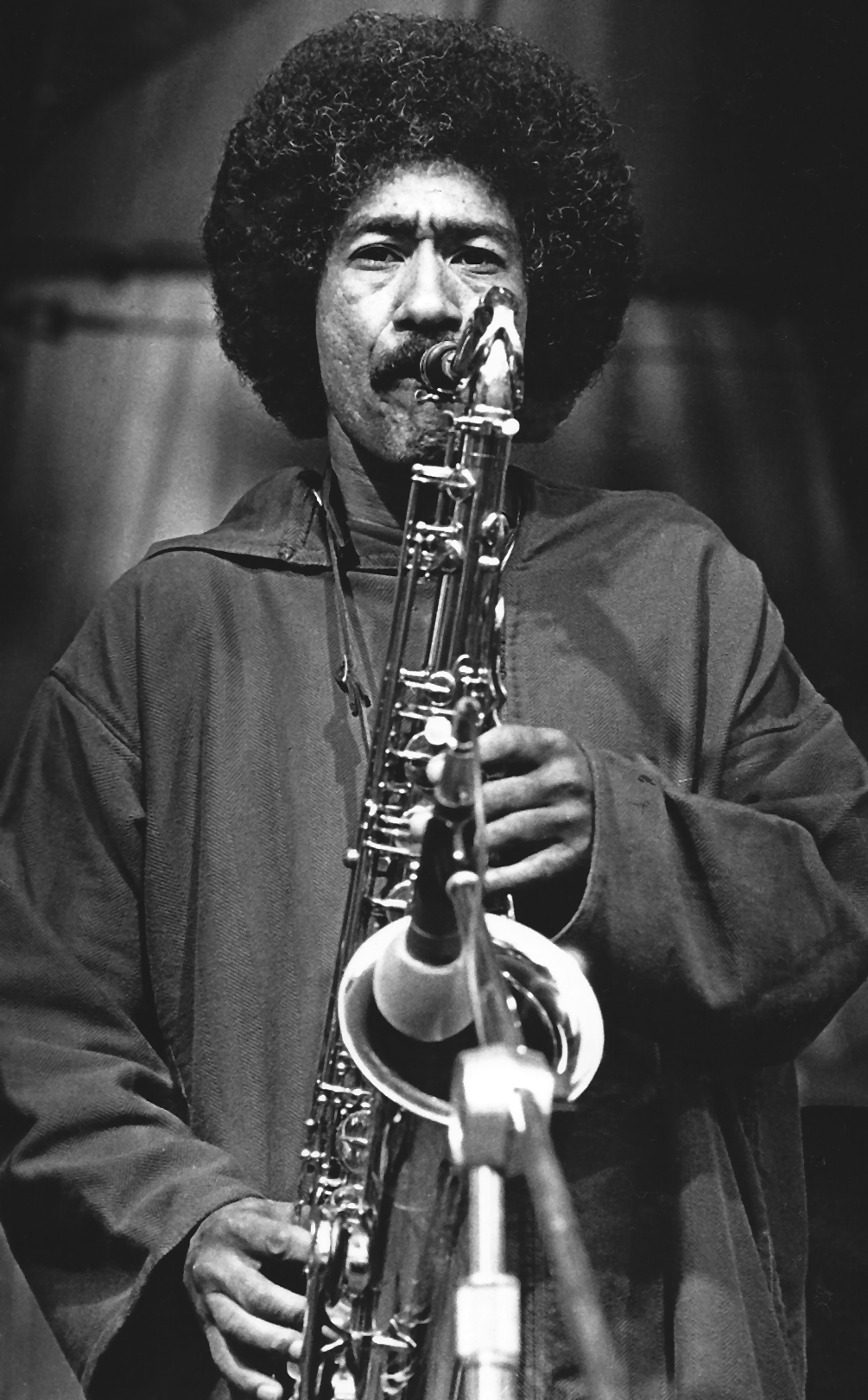 Sax player Hadley Caliman, Freddie Hubbard Quintet, performing at the Pori Jazz Festival in Finland, July 1978.